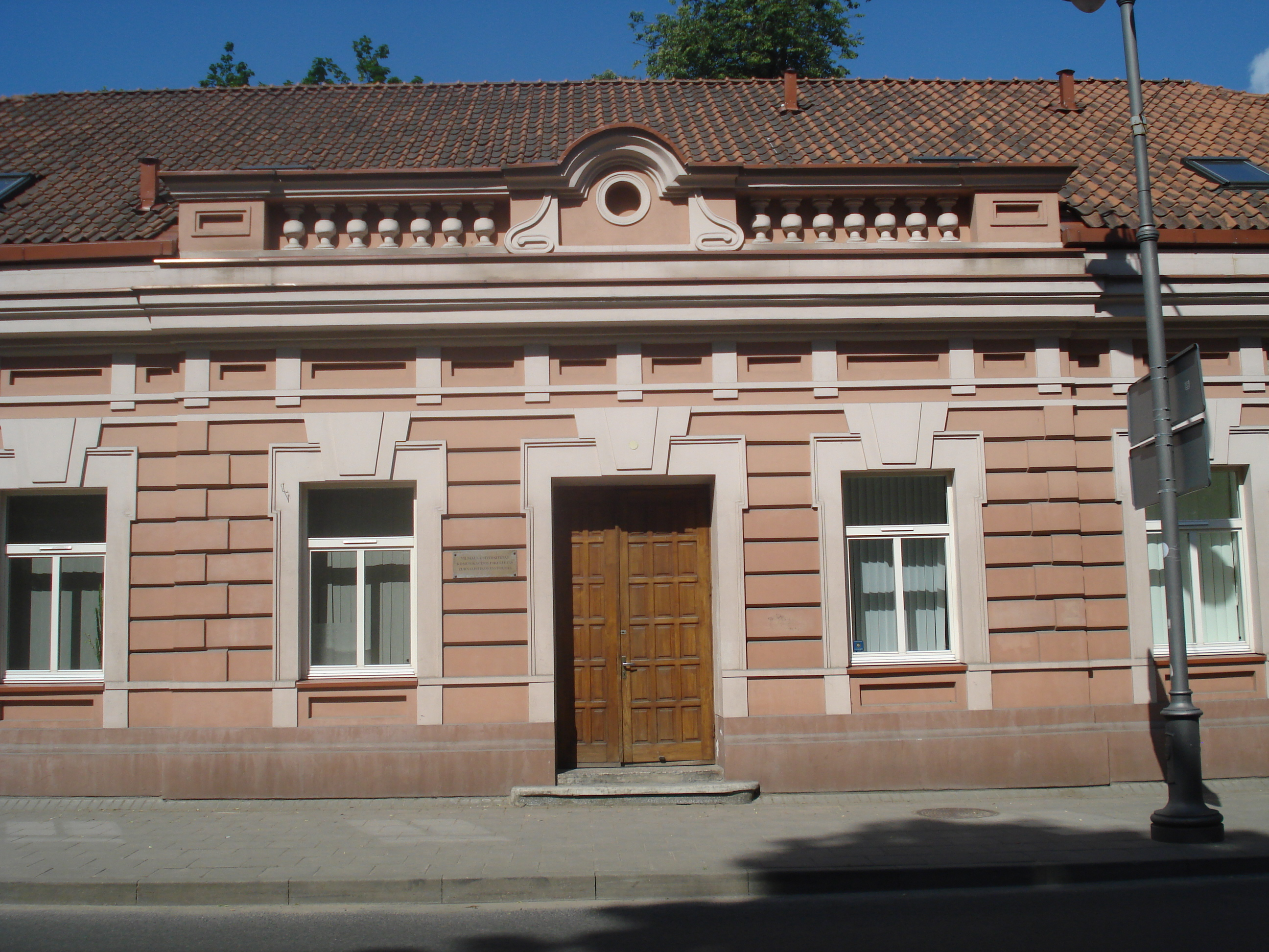 Institute of Journalism (Vilnius University). Maironio g. 7, Vilnius